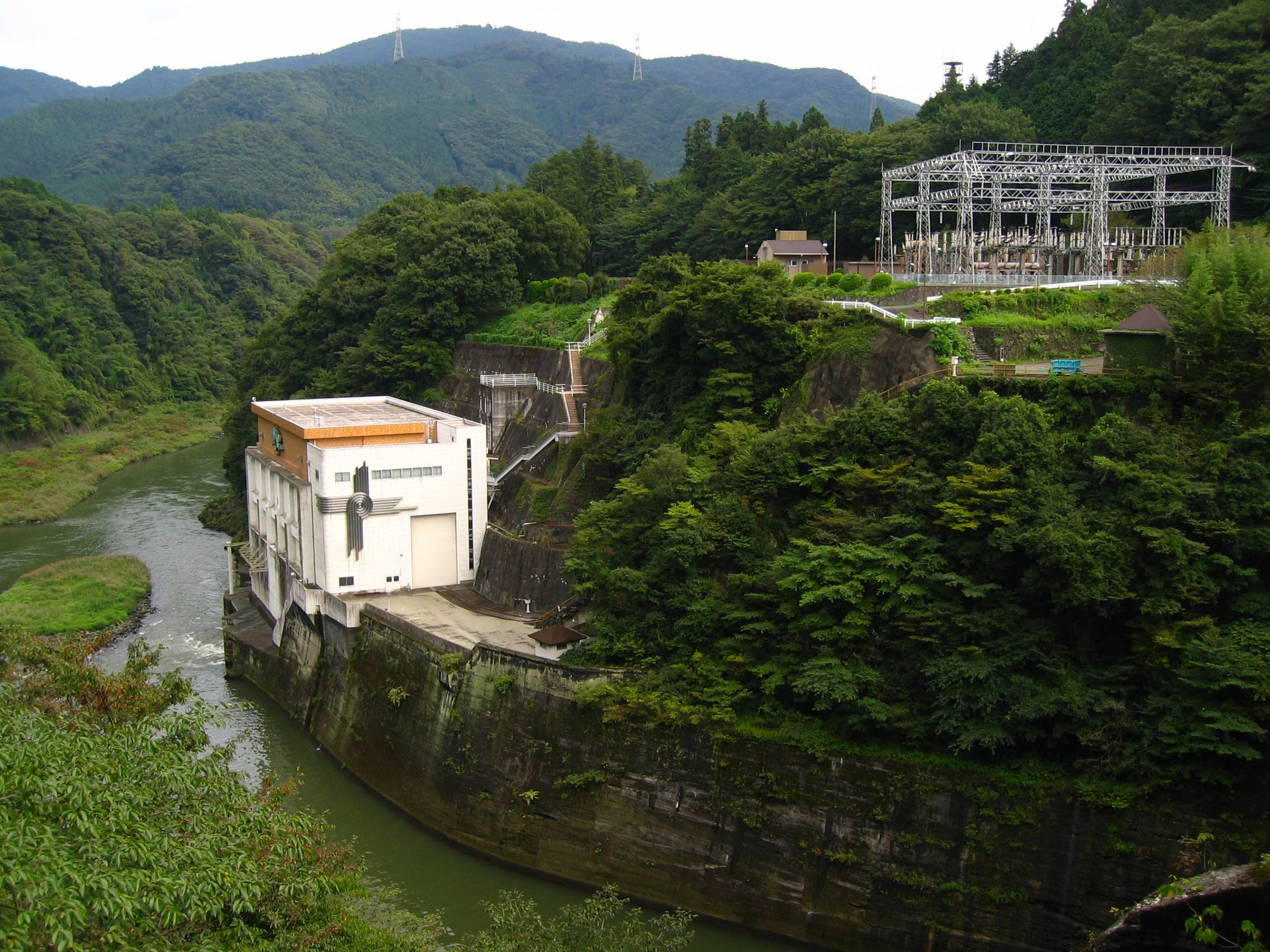 Sagami power station (相模発電所) is a hydroelectric power station in Kanagawa prefecture, Japan. It uses a lot of water of Lake Sagamiko (相模湖) for electric power generating.